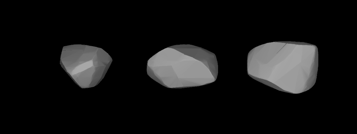 A three-dimensional model of 4399 Ashizuri that was computed using light curve inversion techniques.